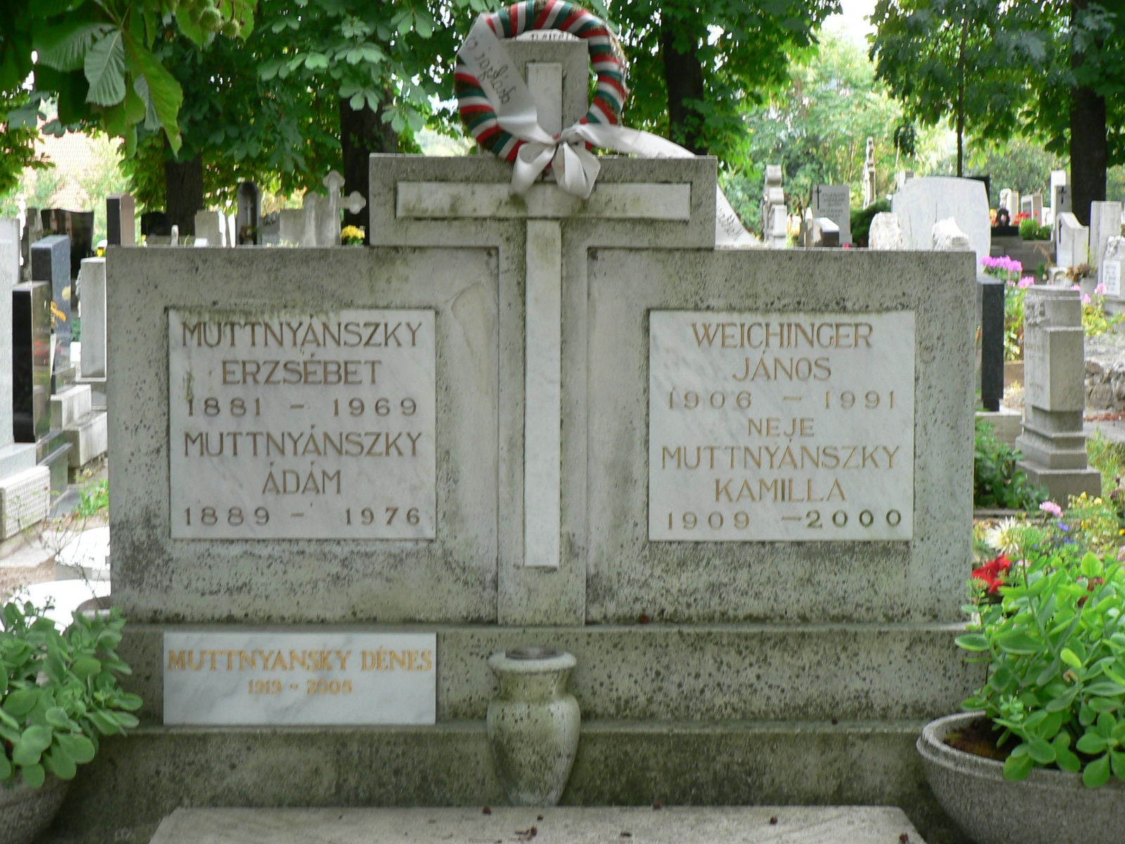 Muttnyánszky Ádám síremléke